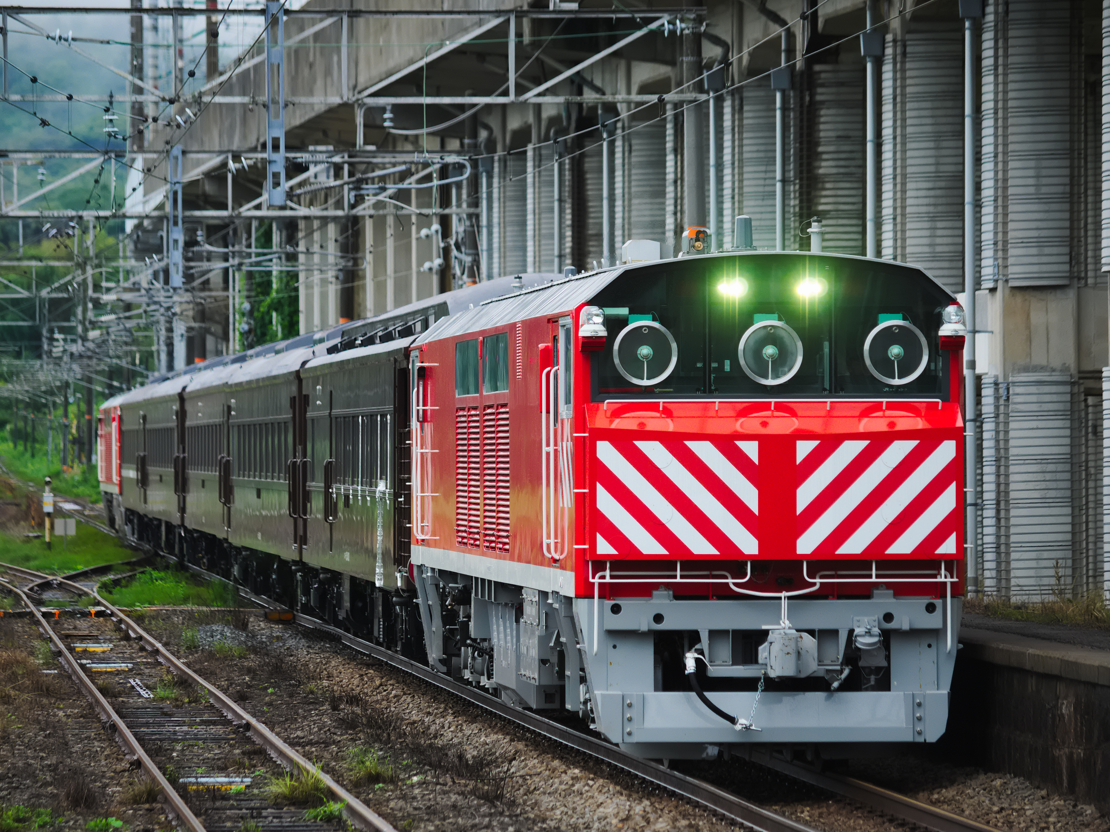 A test run of the recently delivered five JR West 35 series retro-style passenger coaches approaching Koto Station on the Sanyo Main Line top-and-tailed by two KiYa 143 diesel locomotives